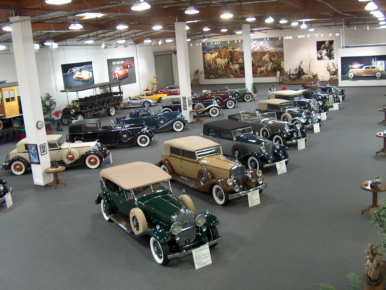 The late Otis Chandler's museum of automobiles and hunting in Oxnard, California - replaced by the Peter Mullin auto museum